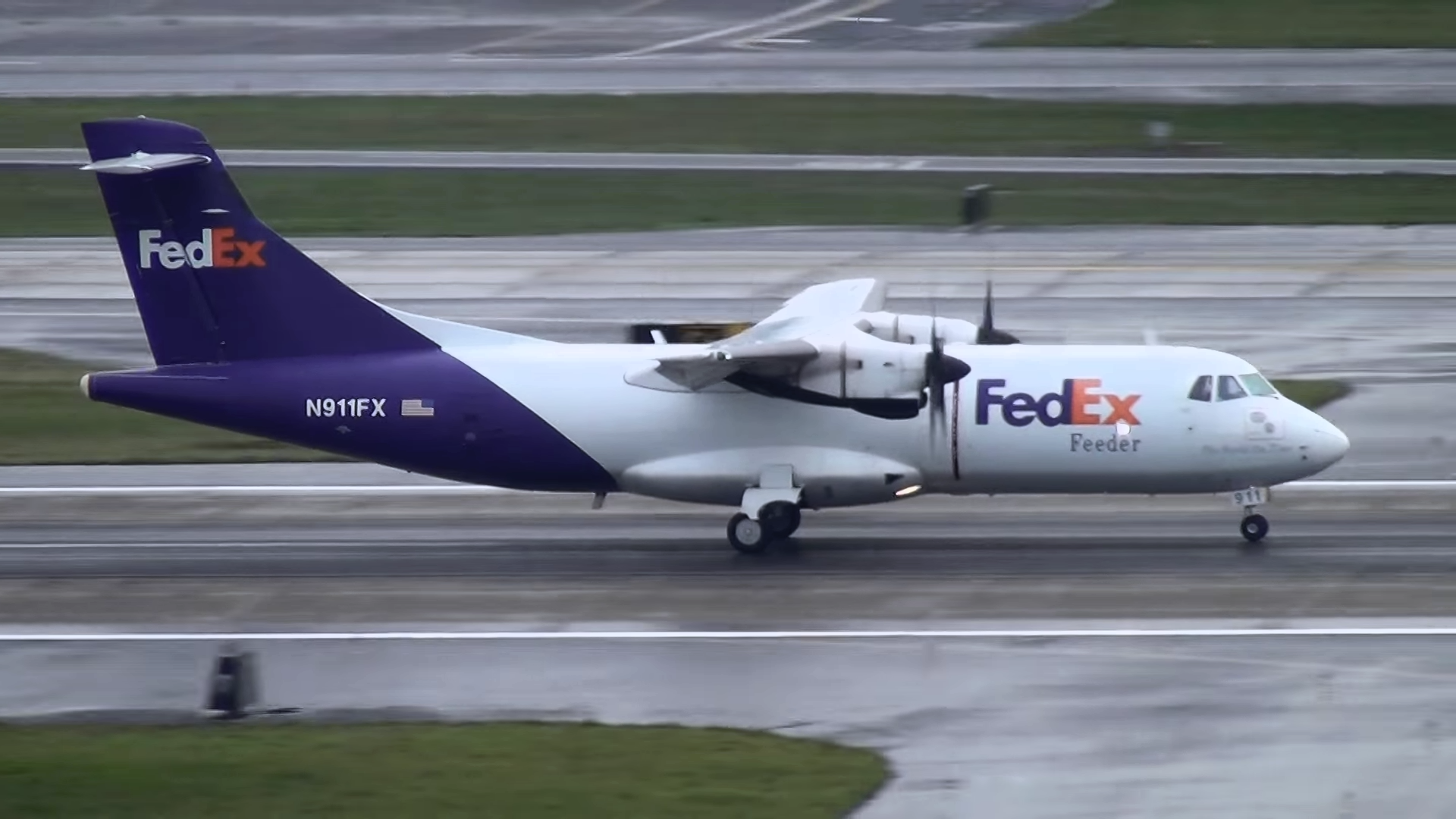 Flight: CFS678 MFR-PDX December 16, 2015 Landing on runway 28L